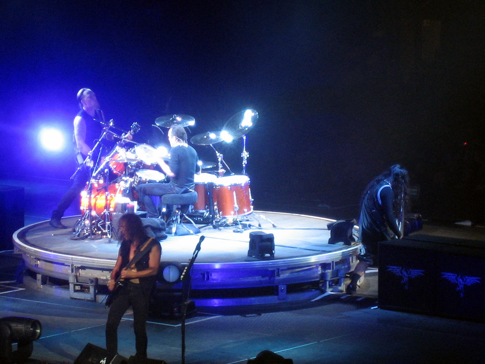 Metallica